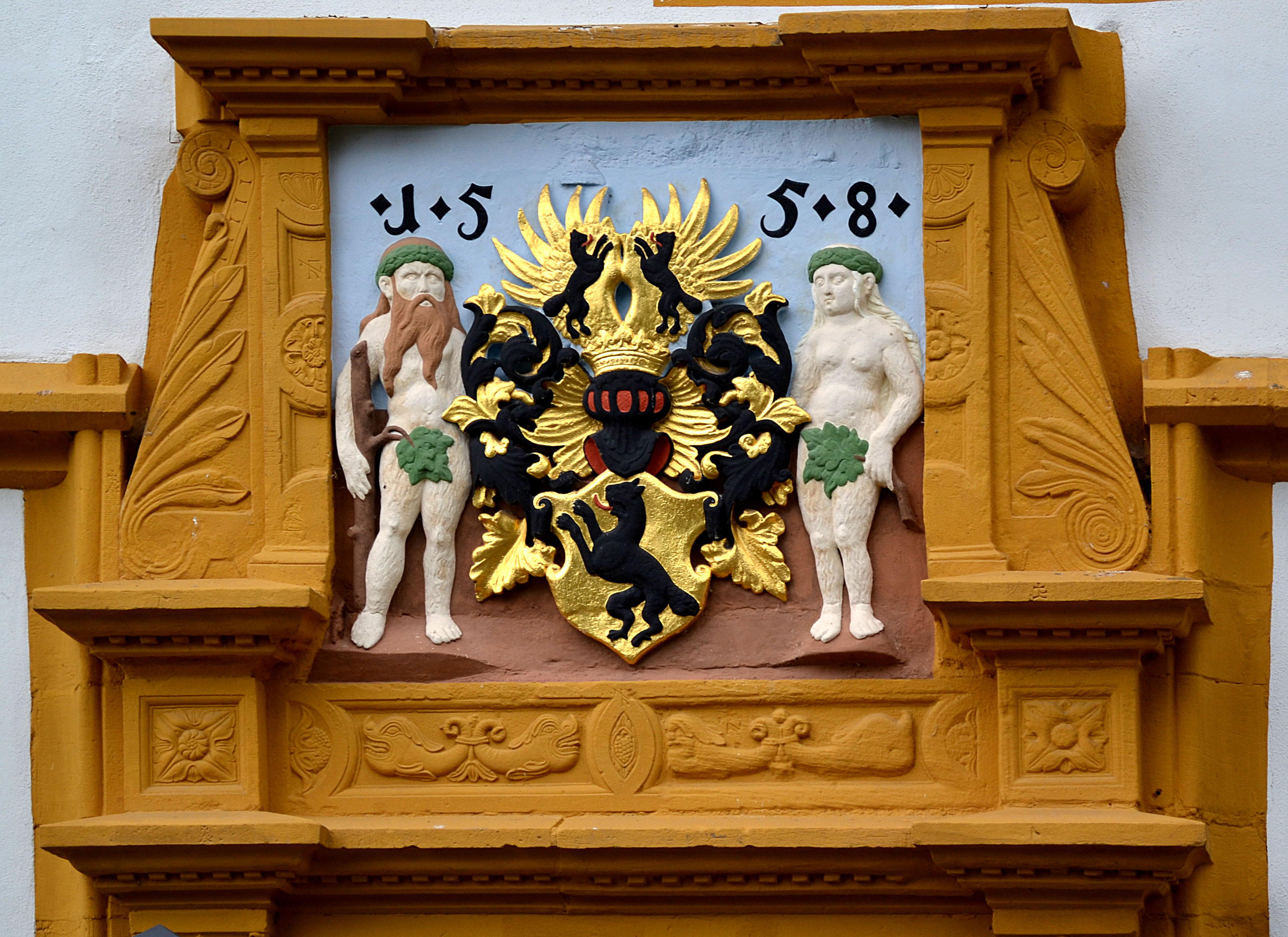 Neues Schloss or Unteres Schloss in Bibra, coat of arms above door